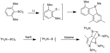 Reactions of free borylenes